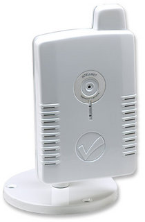 Intellinet Network Solutions NSC11-WN is a compact network IP camera marketed for home and small business use.